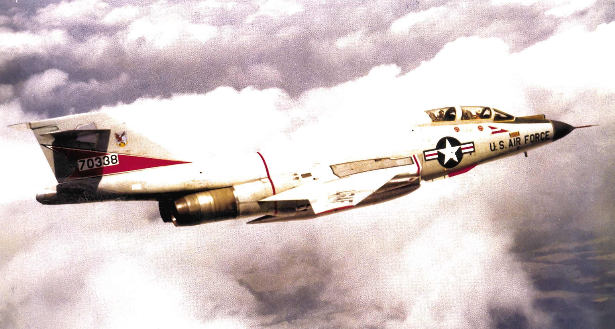 13th Fighter-Interceptor Squadron McDonnell F-101B-90-MC Voodoo 57-0338 Glasgow AFB, Montana September 1962. Converted to RF-101B 1971 and turned over to the 192d TRS of the Nevada Air National Guard. Retired to AMARC 1975.